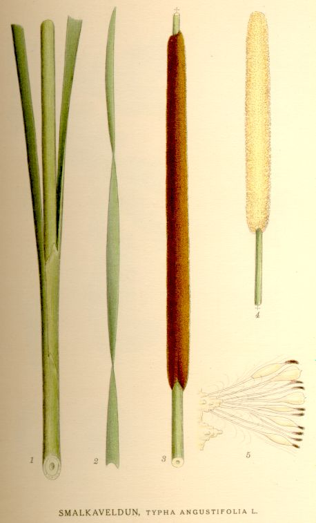 Typha angustifolia